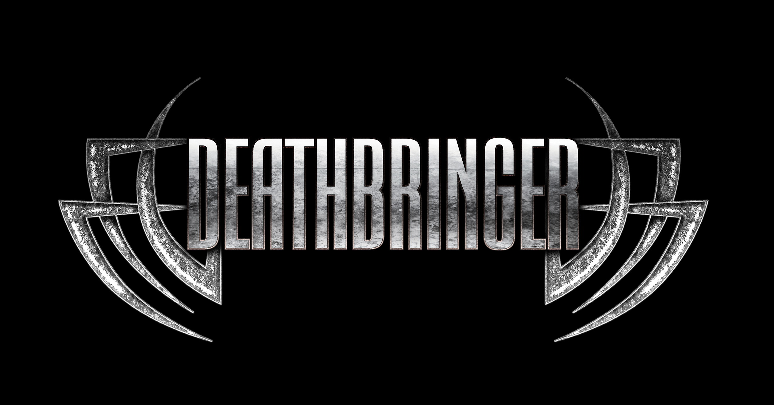 Deathbringer logo - progressive death metal band from Belarus